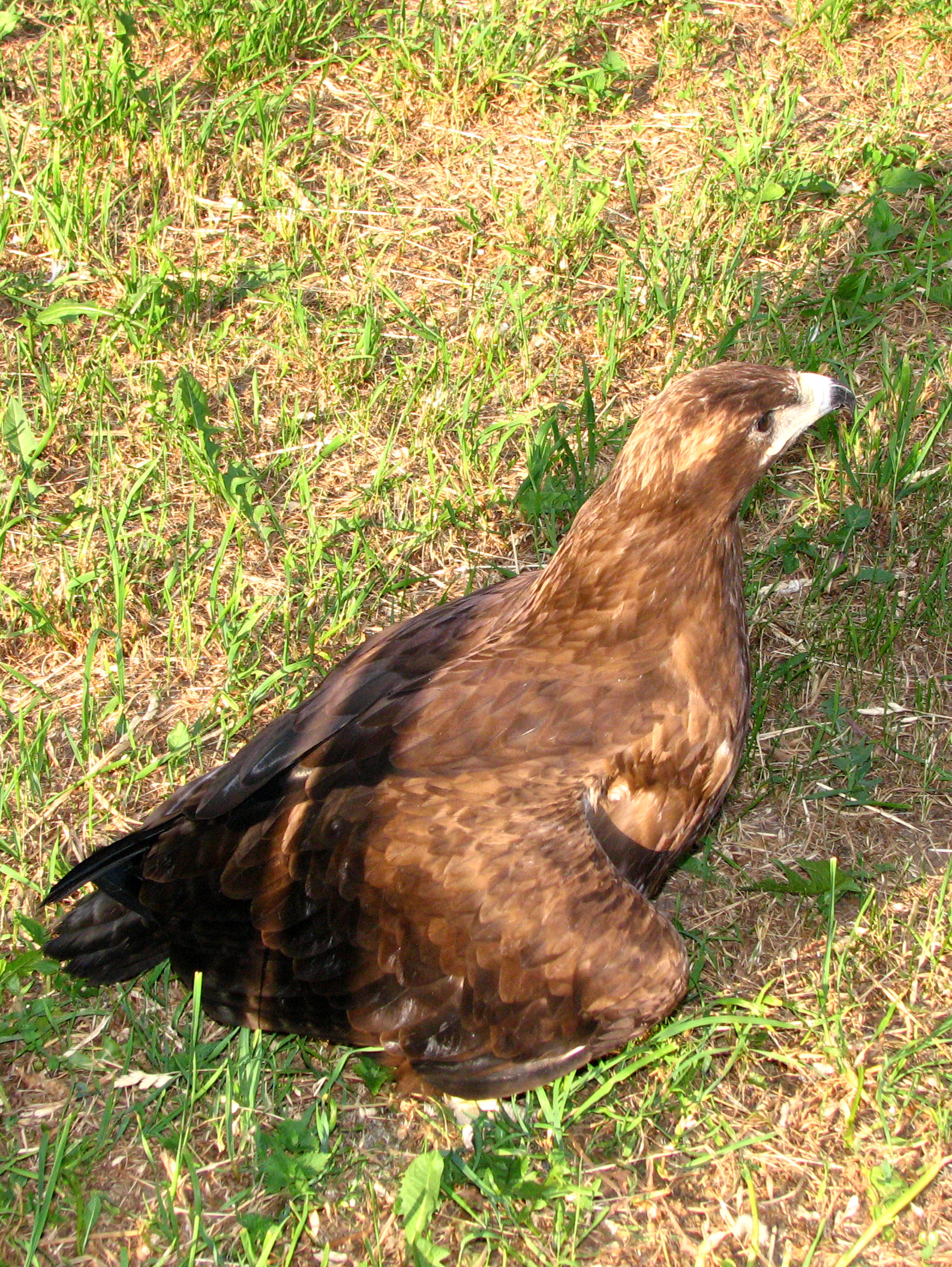 Moscow Zoo. Golden Eagle (Aquila chrysaetos)